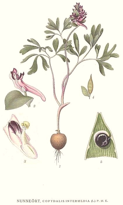 Original Description Nunneört, Corydalis intermedia (L.) P.M.E.